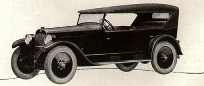 Chalmers Automobile advertisement